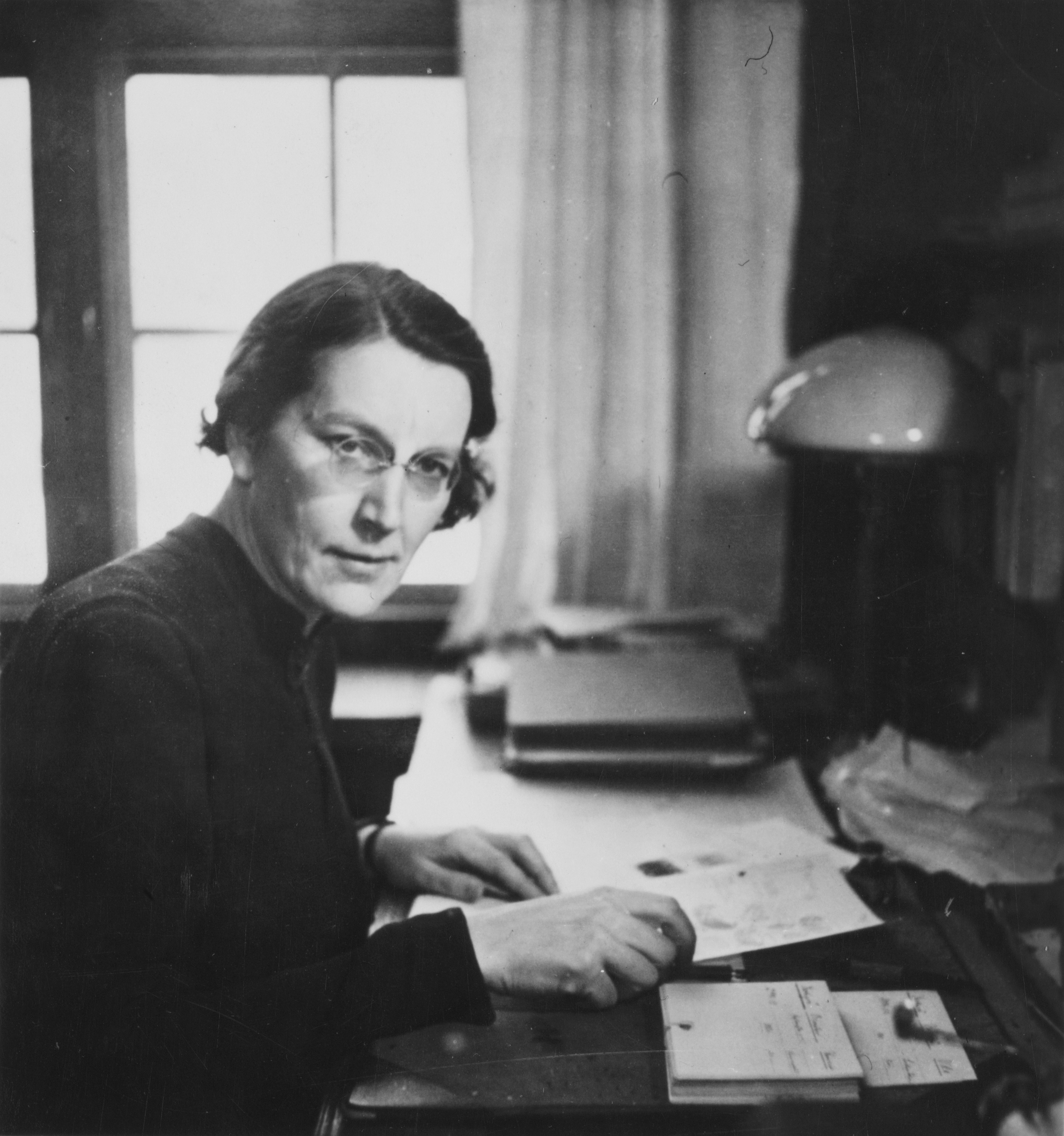 Photograph of the Finnish archaeologist Ella Kivikoski (1901–1990).